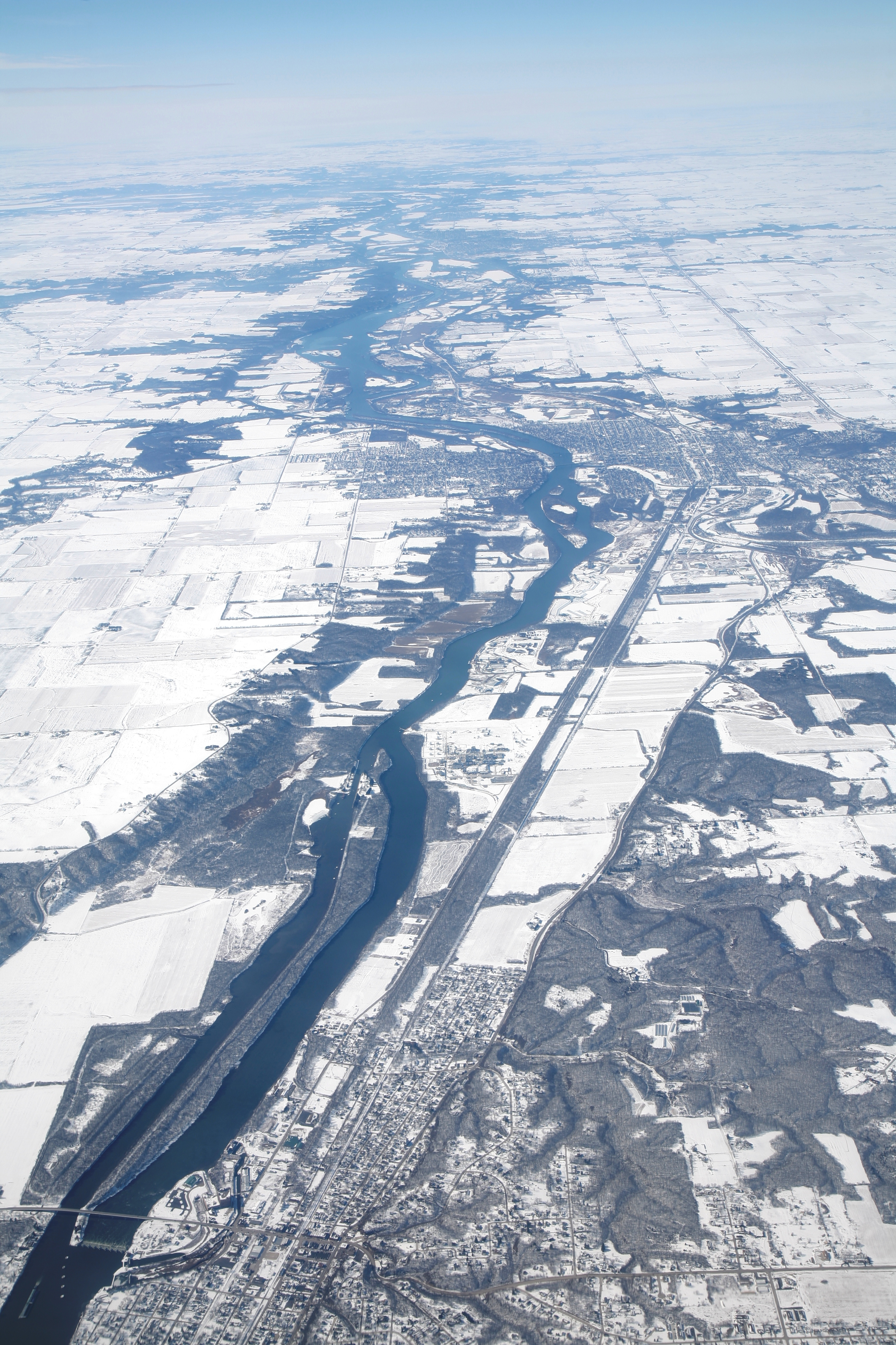 Aerial image of the Illinois River between Marseilles and Ottawa, Illinois.